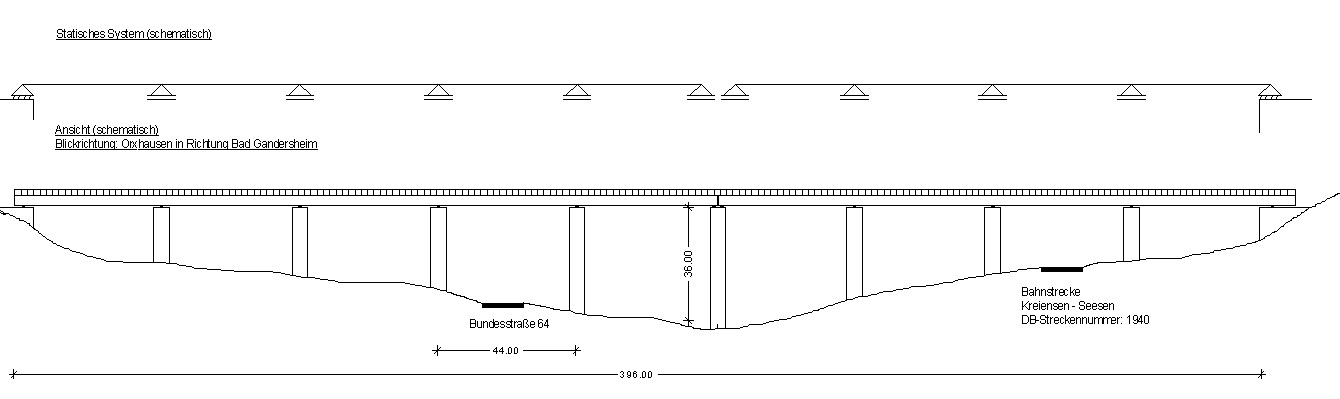 Gandetalbruecke. Hanover-Würzburg high-speed line.